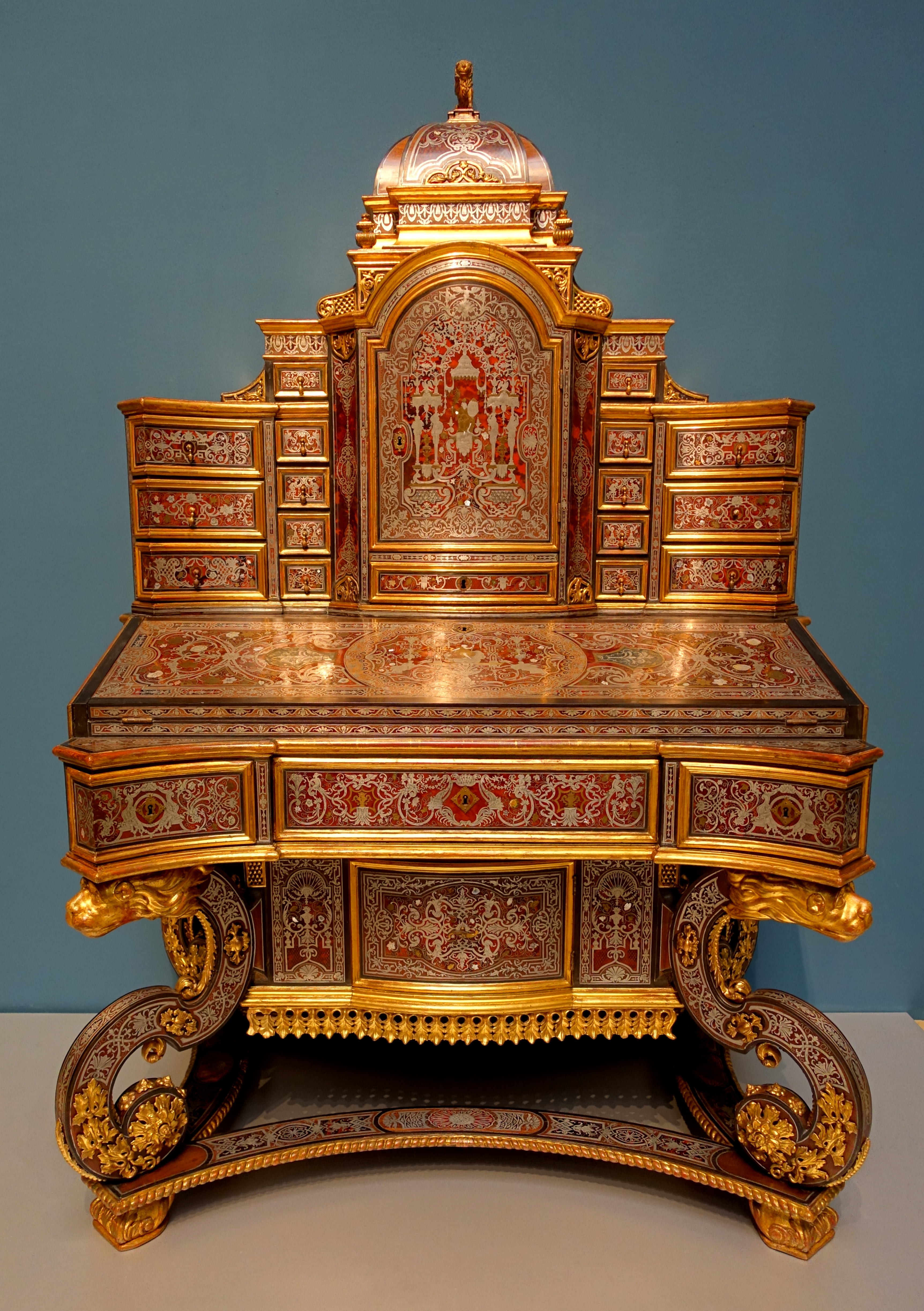 Exhibit in the Germanisches Nationalmuseum - Nuremberg, Germany.